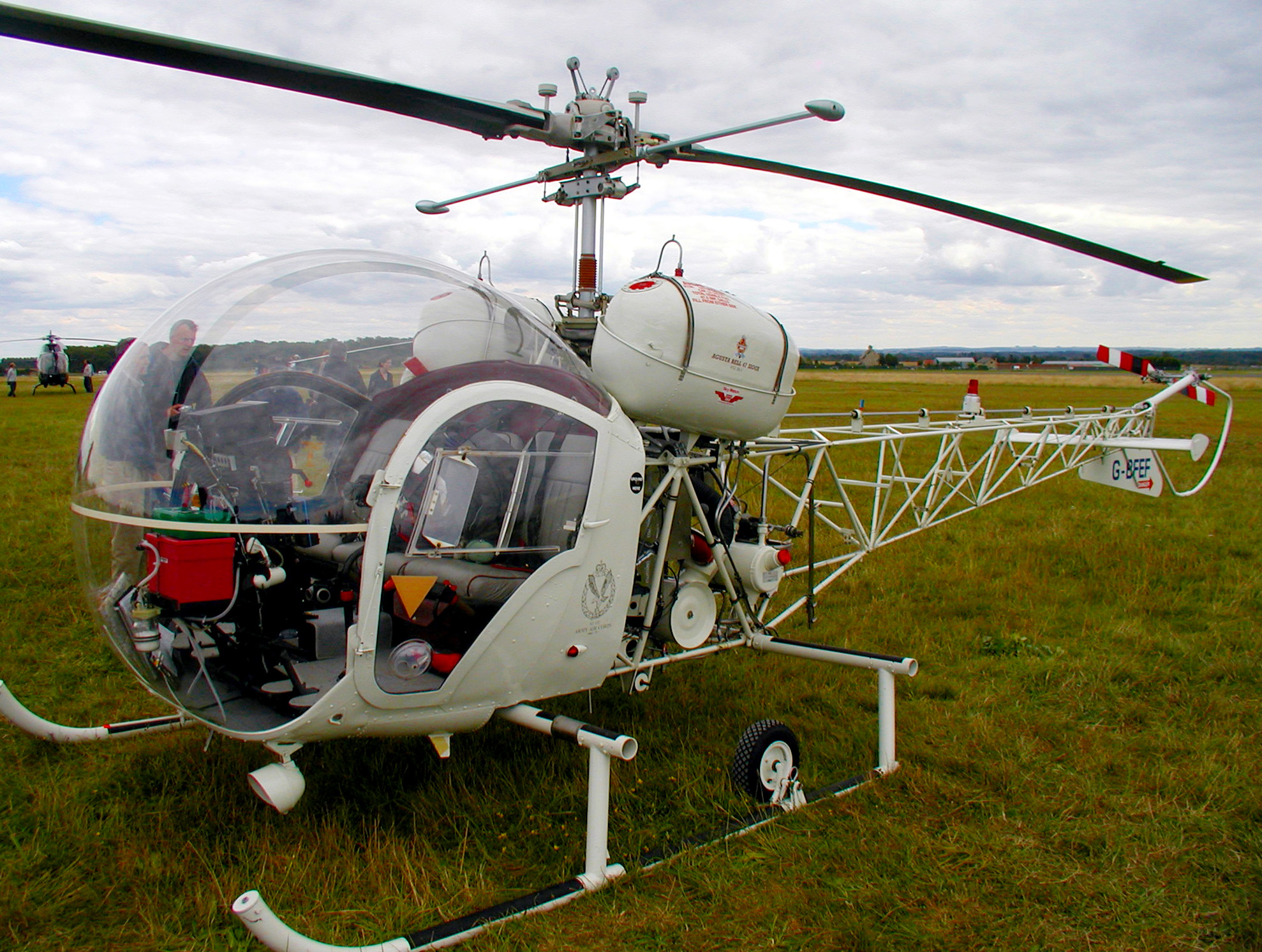 Agusta Bell 47G-3B-1 helicopter (UK registration G-BFEB, built 1964) at Kemble Airfield, Gloucestershire, England. Photographed by Adrian Pingstone in August 2003 and placed in the public domain.